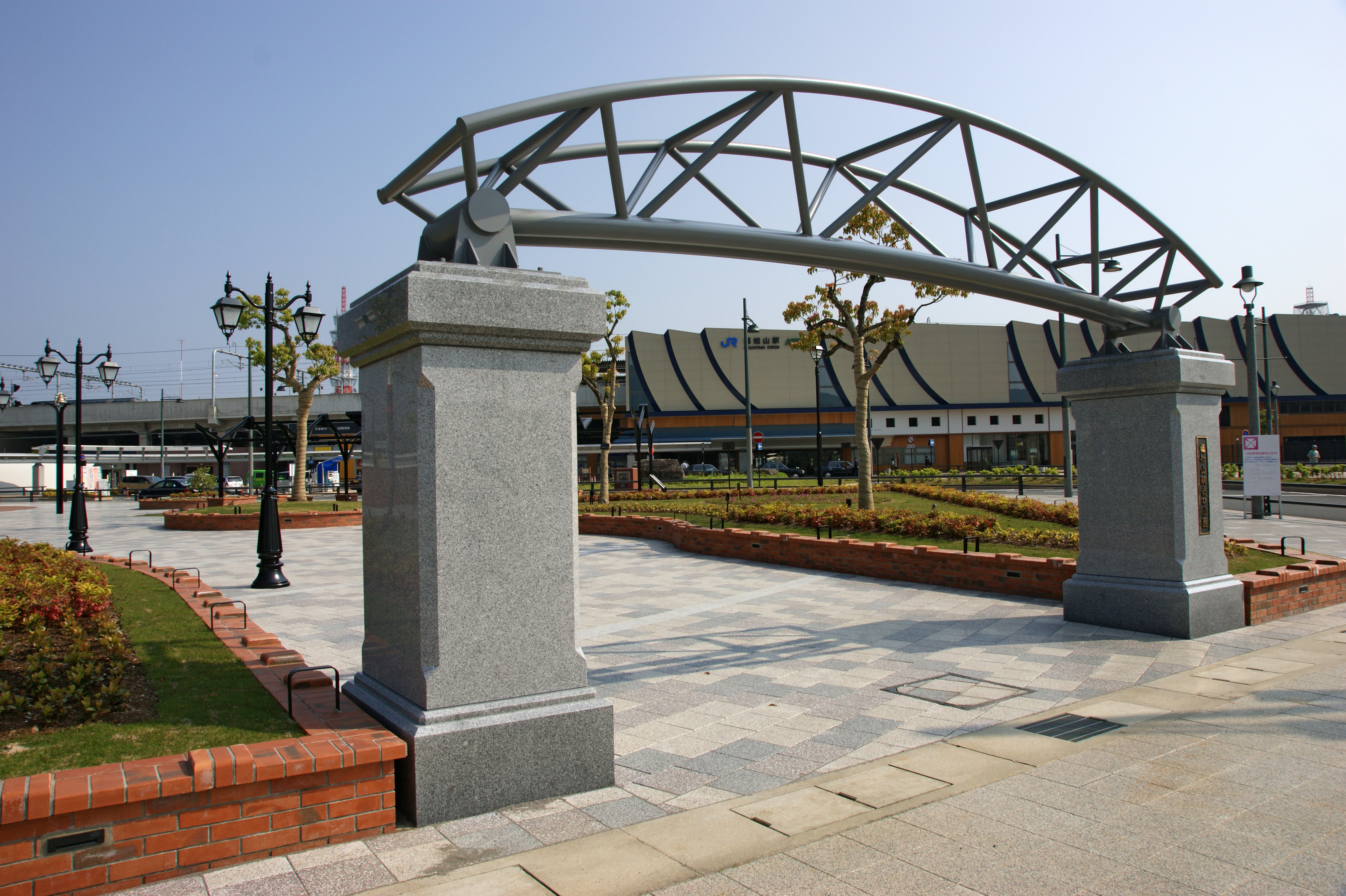 Fukuchiyama Station Minamiguchi Park (Fukuchiyama Station South exit Park) in Fukuchiyama, Kyoto prefecture, Japan